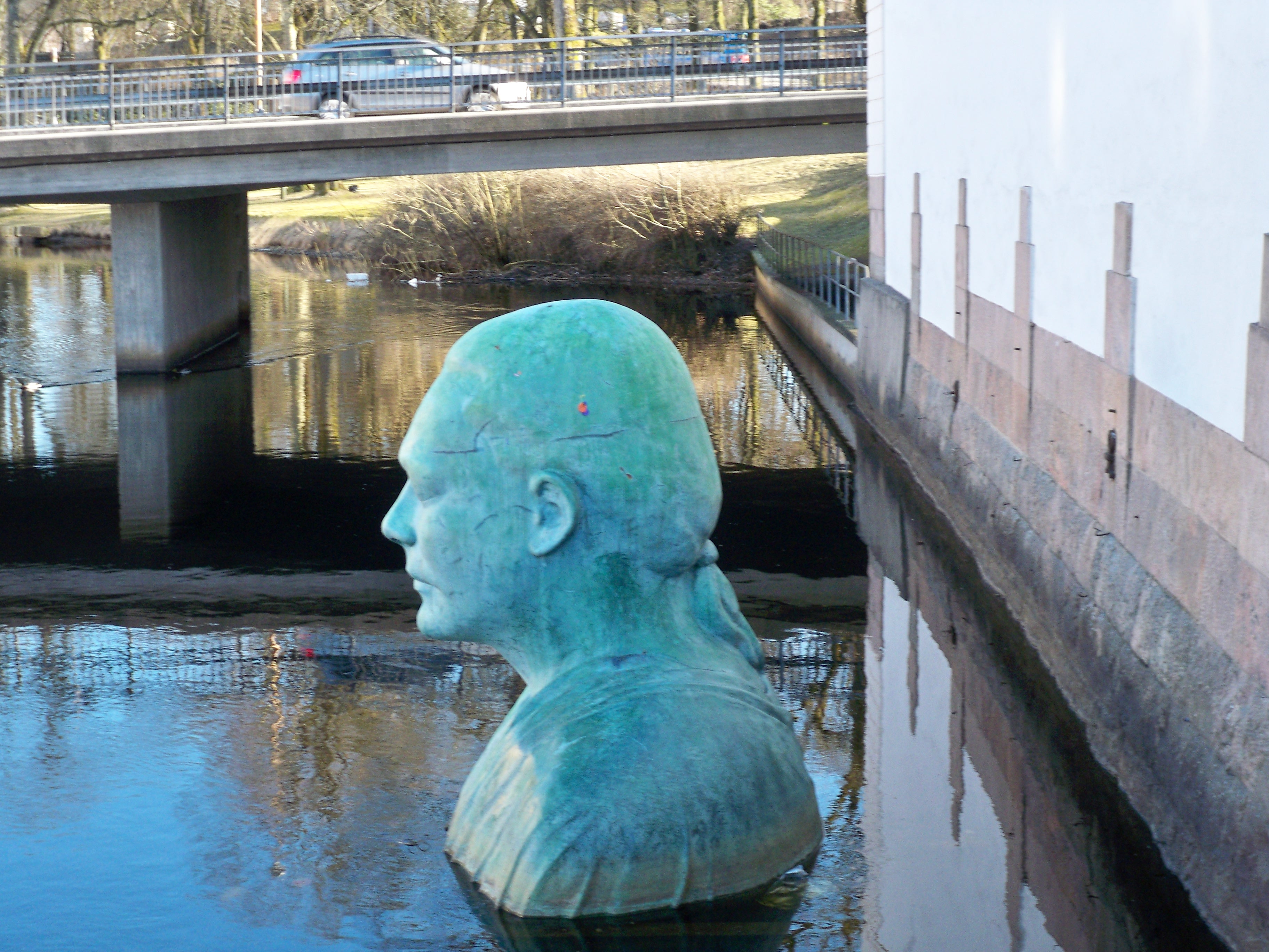 The bronze-bust Bodhi (2004) by the Swedish sculptor Fredrik Wretman in Viskan (Whisper river), Borås, Sweden.